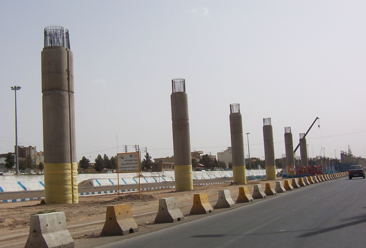 Monorail in Qom